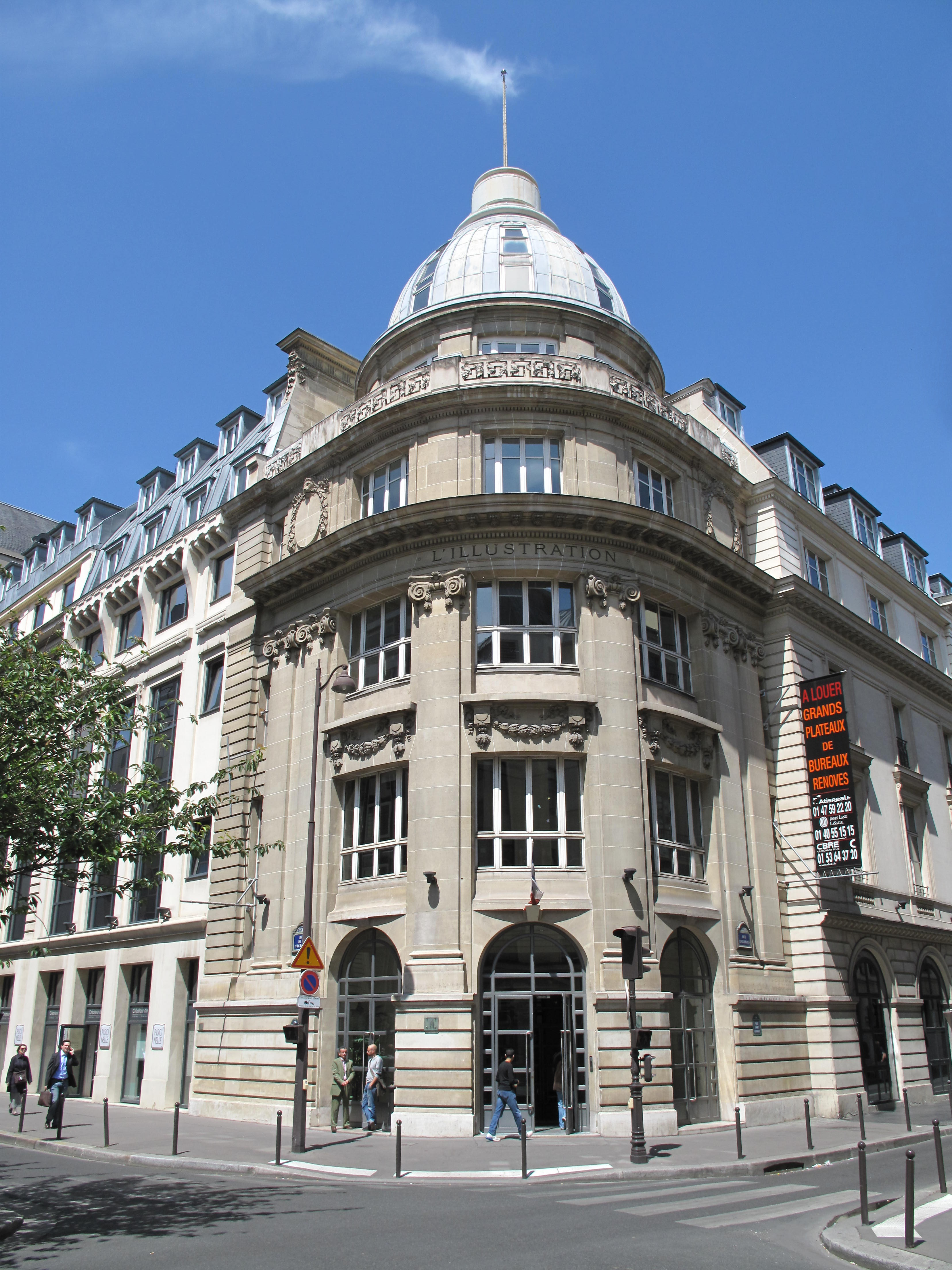 Building of the former french newspapers "l'Illustration" : 13, rue Saint-Georges, Paris